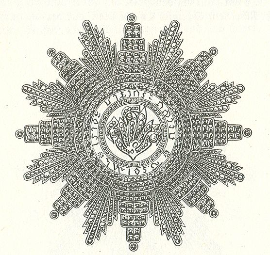 Star worn by the King and Queen of Thailand, Order of Chula Chom Klao